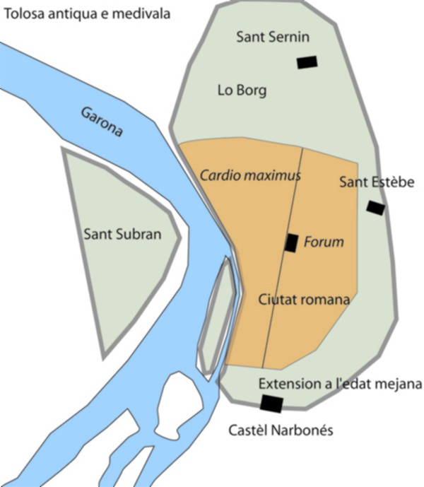 A map of antic and medieval Tolosa, author gavach